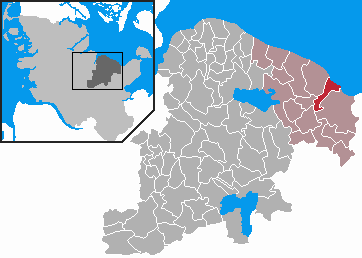 This map shows the area of the Gemeinde (municipality) Hohwacht in the Kreis (district) Plön, Schleswig-Holstein, Germany.